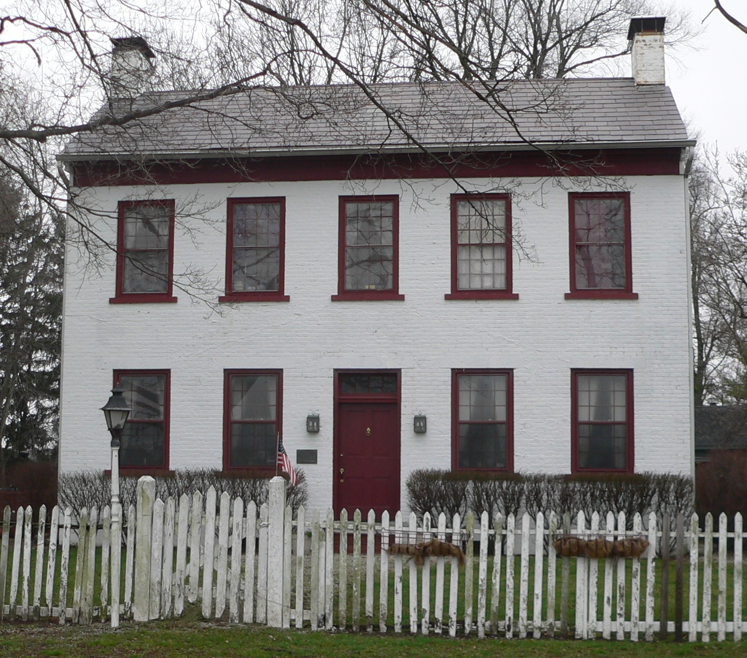 Lewis Jones House, located at 5224 College Corner Road, northeast of Centerville, Indiana; seen from the south.